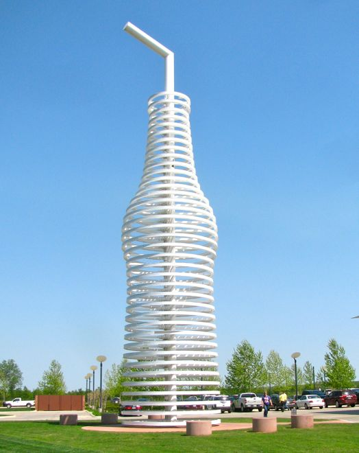 The 66 foot neon sign on the roadside outside Pops restaurant on Route 66 in Arcadia OK.